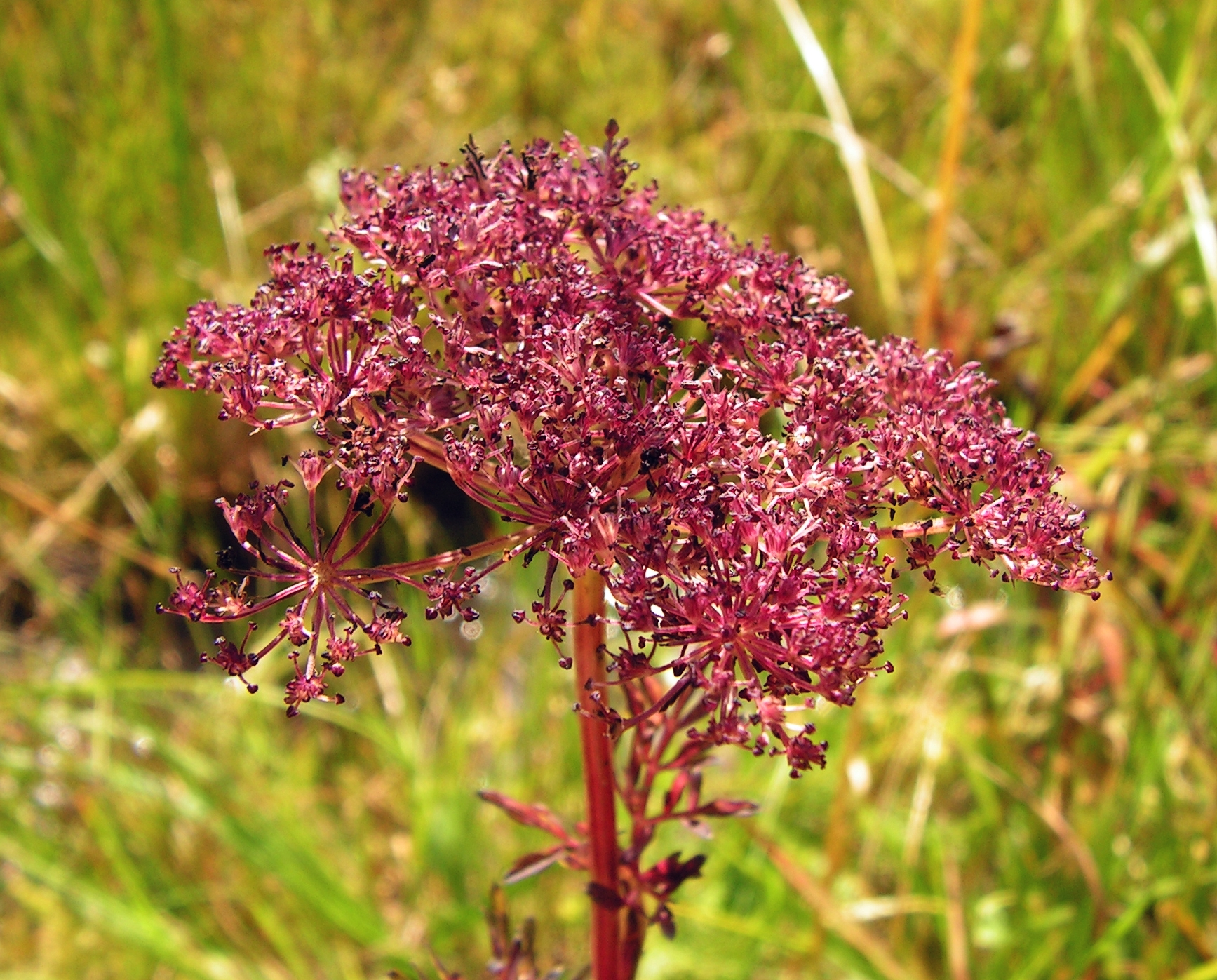 Selinum carvifolia (?). Moscow region, Russia.